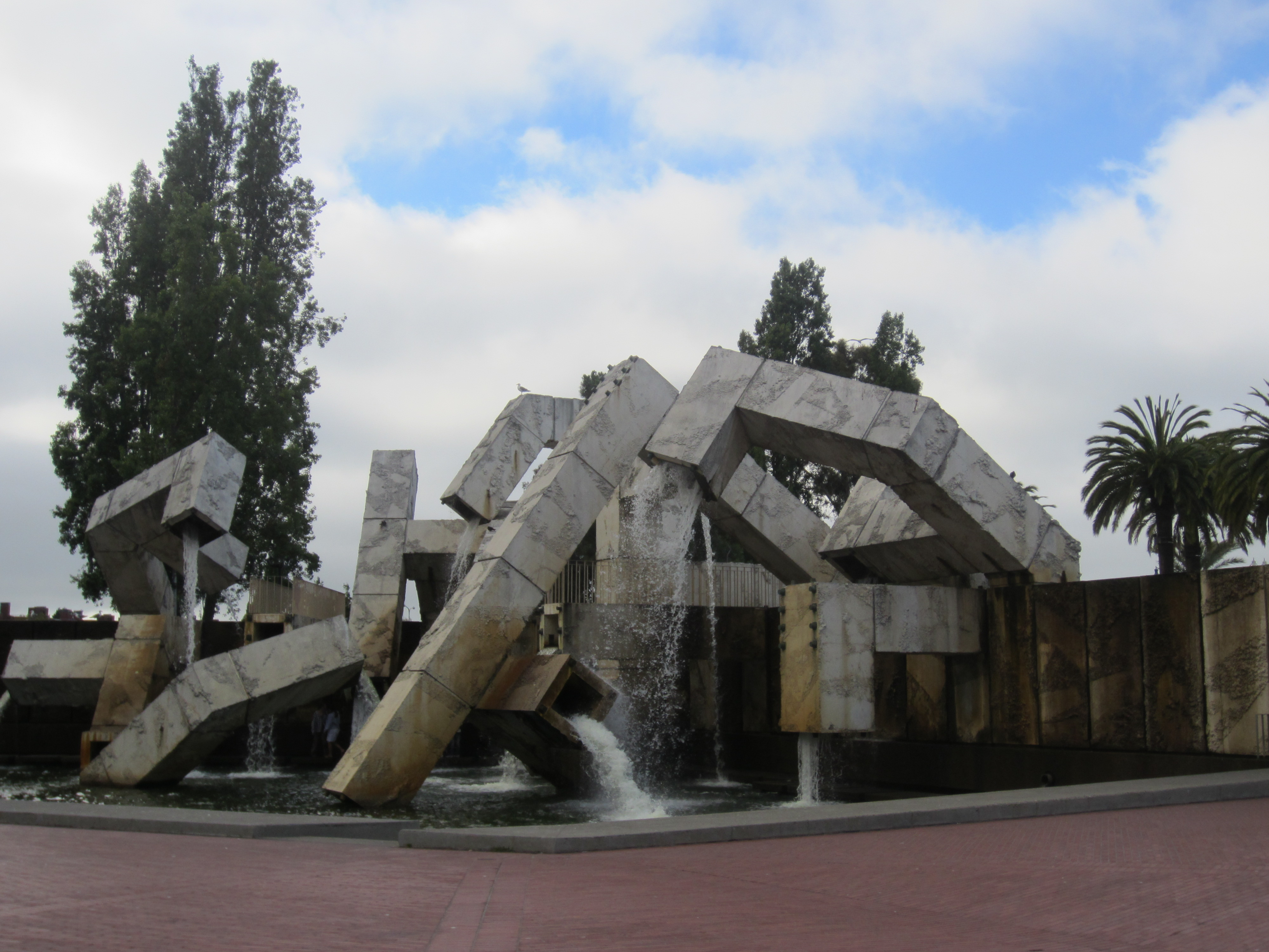 Vaillancourt Fountain, San Francisco (2013)